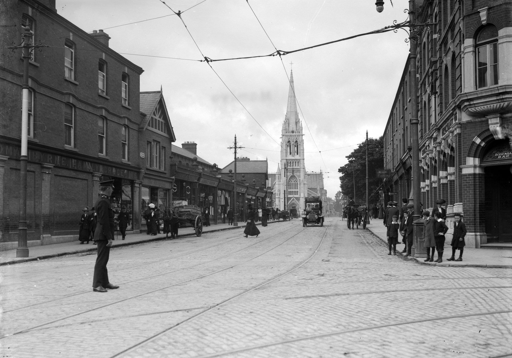 Probably just pure chance, but this really looks as if that chauffeur is going to be asked to pull over to the kerb at the famous Doyle's Corner in Dublin... Photographer: Fergus O'Connor Date: 1915? (based on car registration number) NLI Ref.: OCO 59